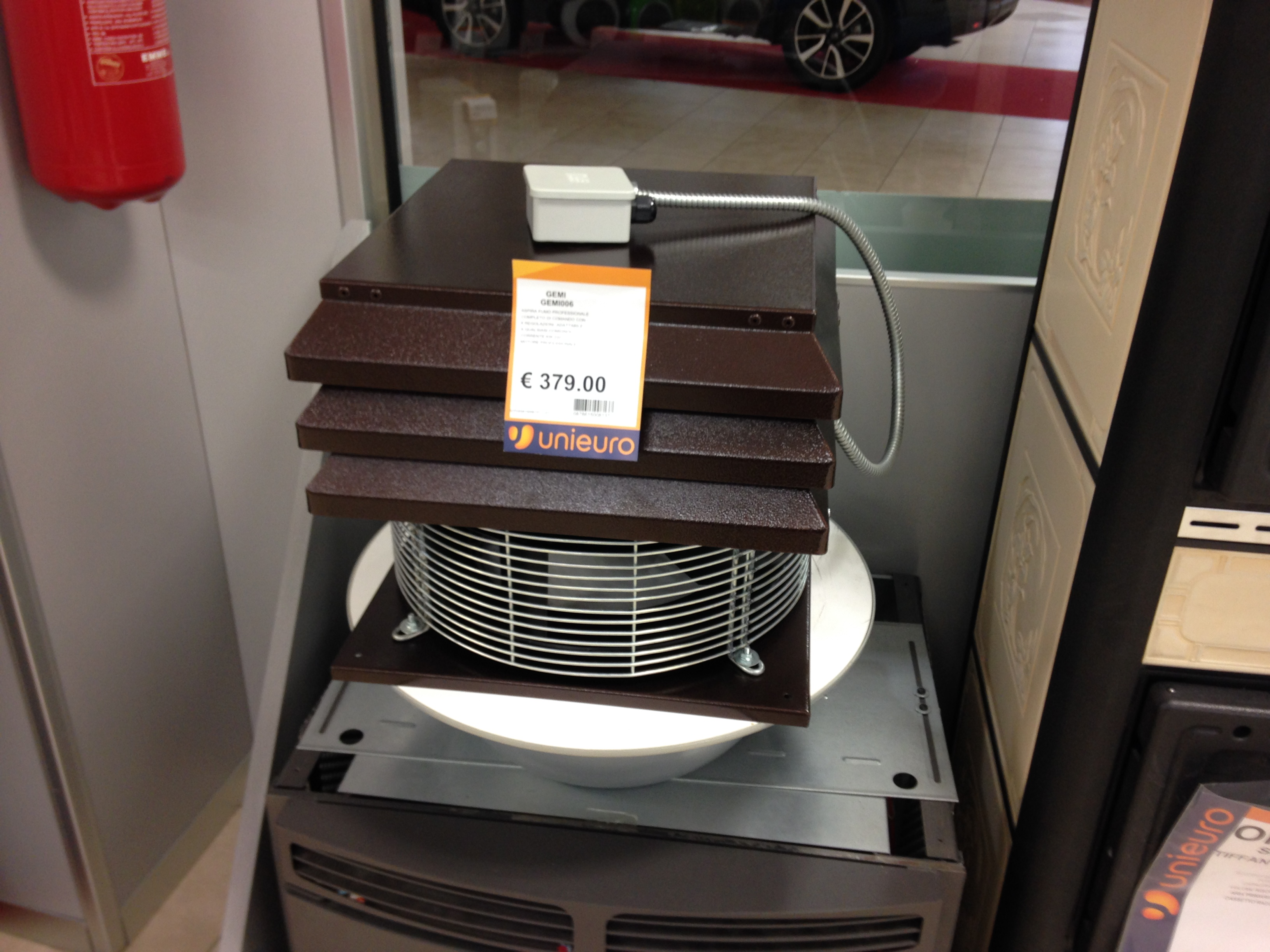 Chimney fan